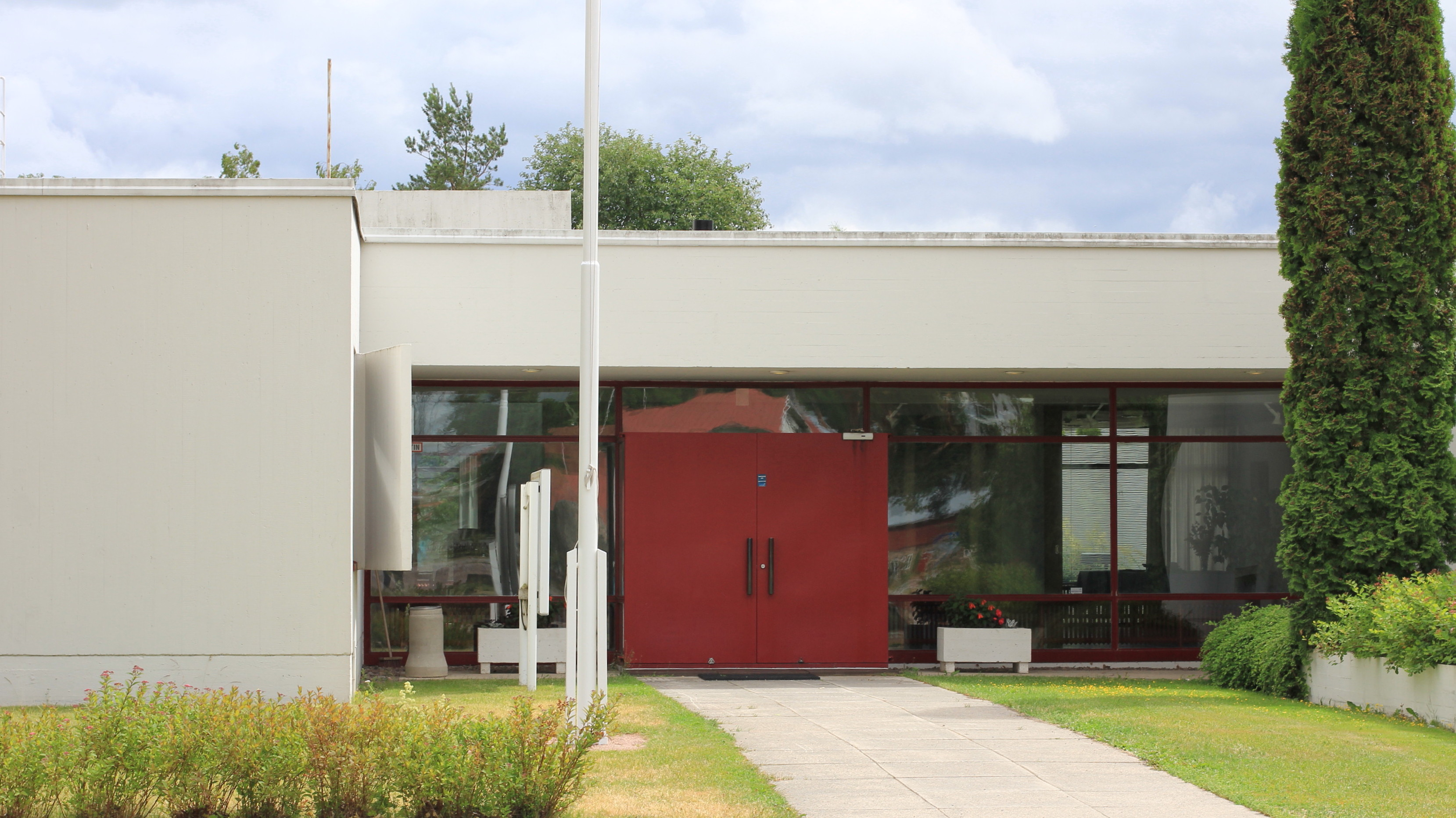 Parish center, Säkylä, Finland. - Main entrance.